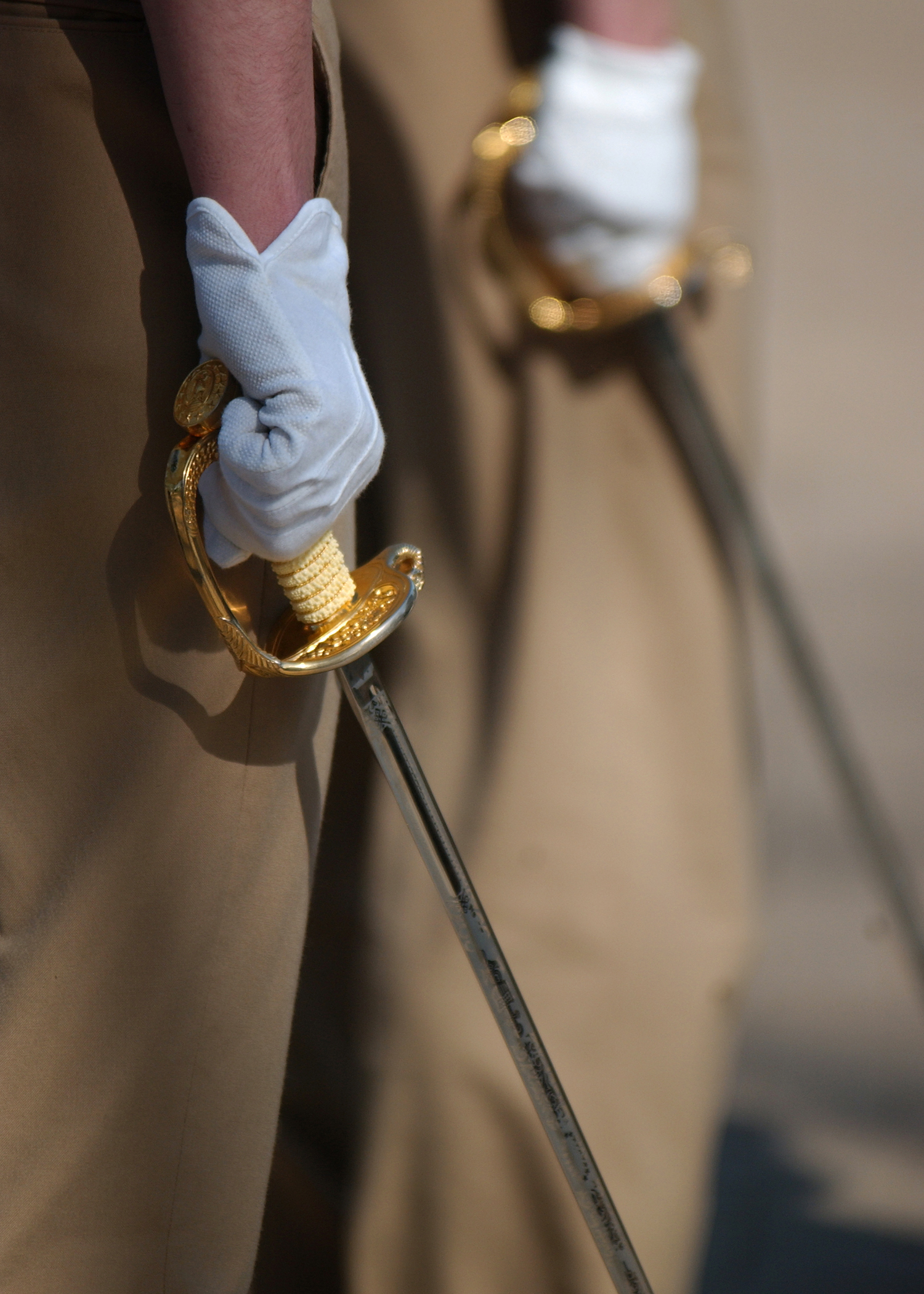 Original Navy caption:U.S. Naval Academy Midshipmen participate in a practice parade on the academy campus in preparation for the April 7 formal parade, the first of the year.